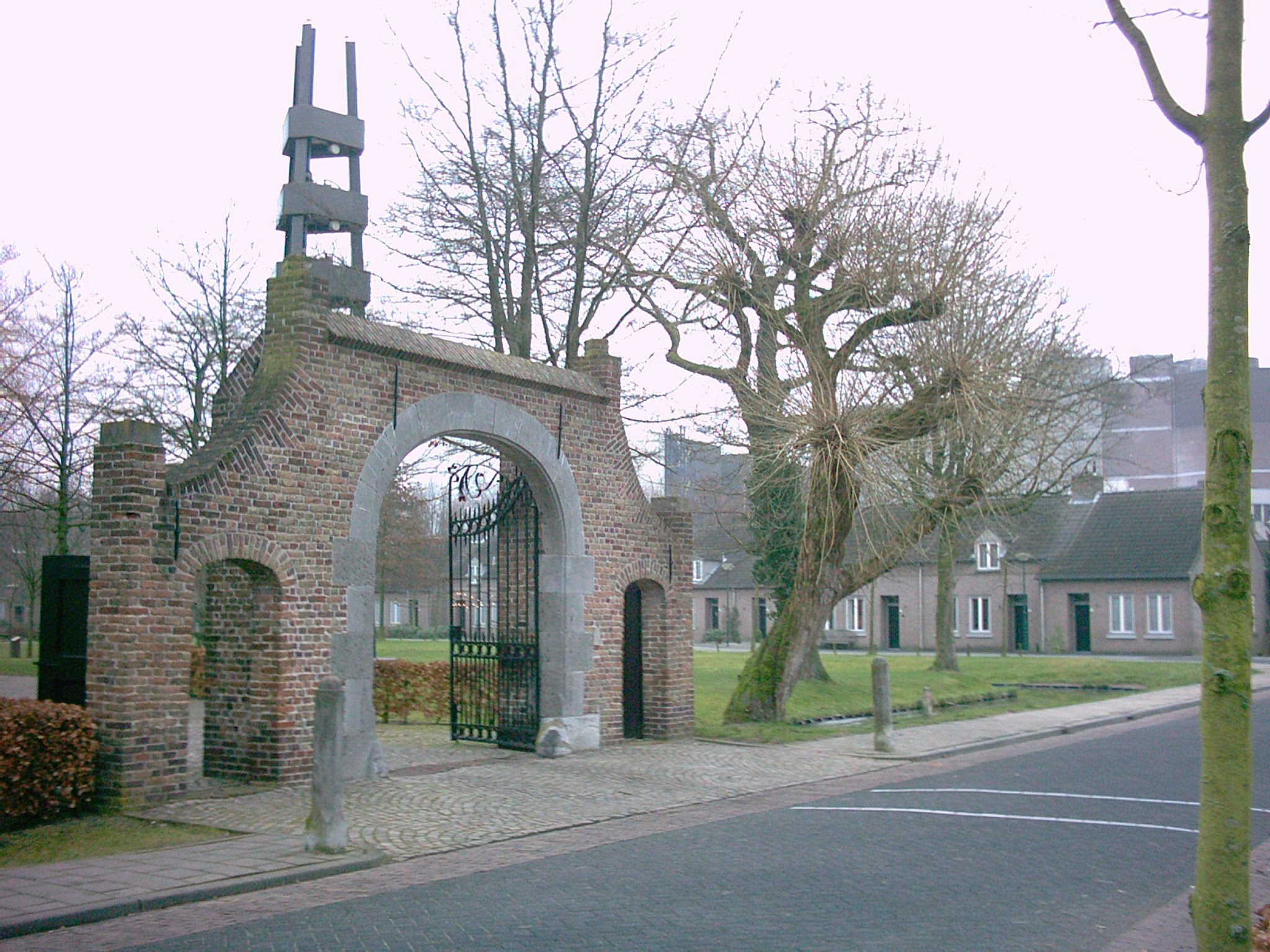 Gate to Binderen at Lieshout. In the background some malt towers of the Bavaria brewery